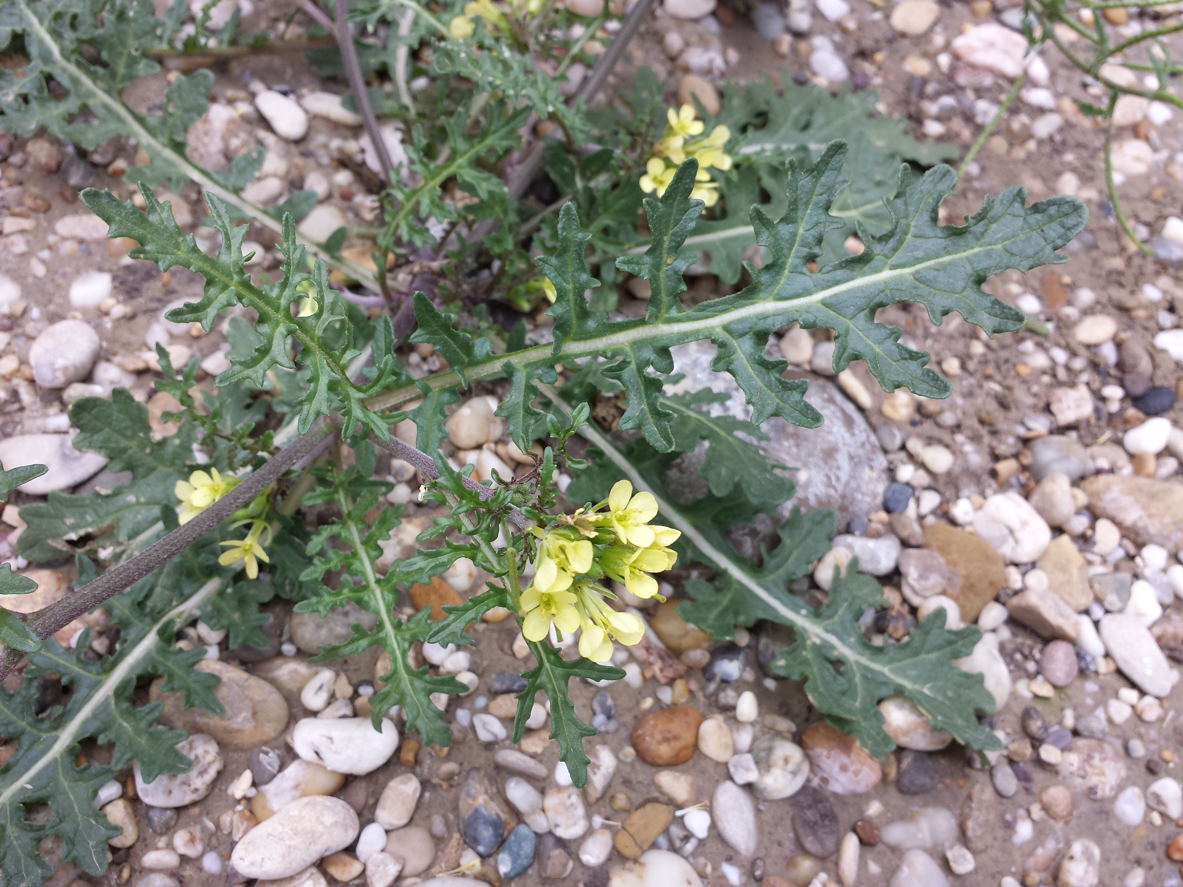 Leaves Taxonym: Erucastrum gallicum ss Fischer et al. EfÖLS 2008 ISBN 978-3-85474-187-9 (det. M. A. Fischer 2015-10-10) Location: Seestadt Aspern, Vienna-Donaustadt - ca. 160 m a.s.l. Habitat: rubble area